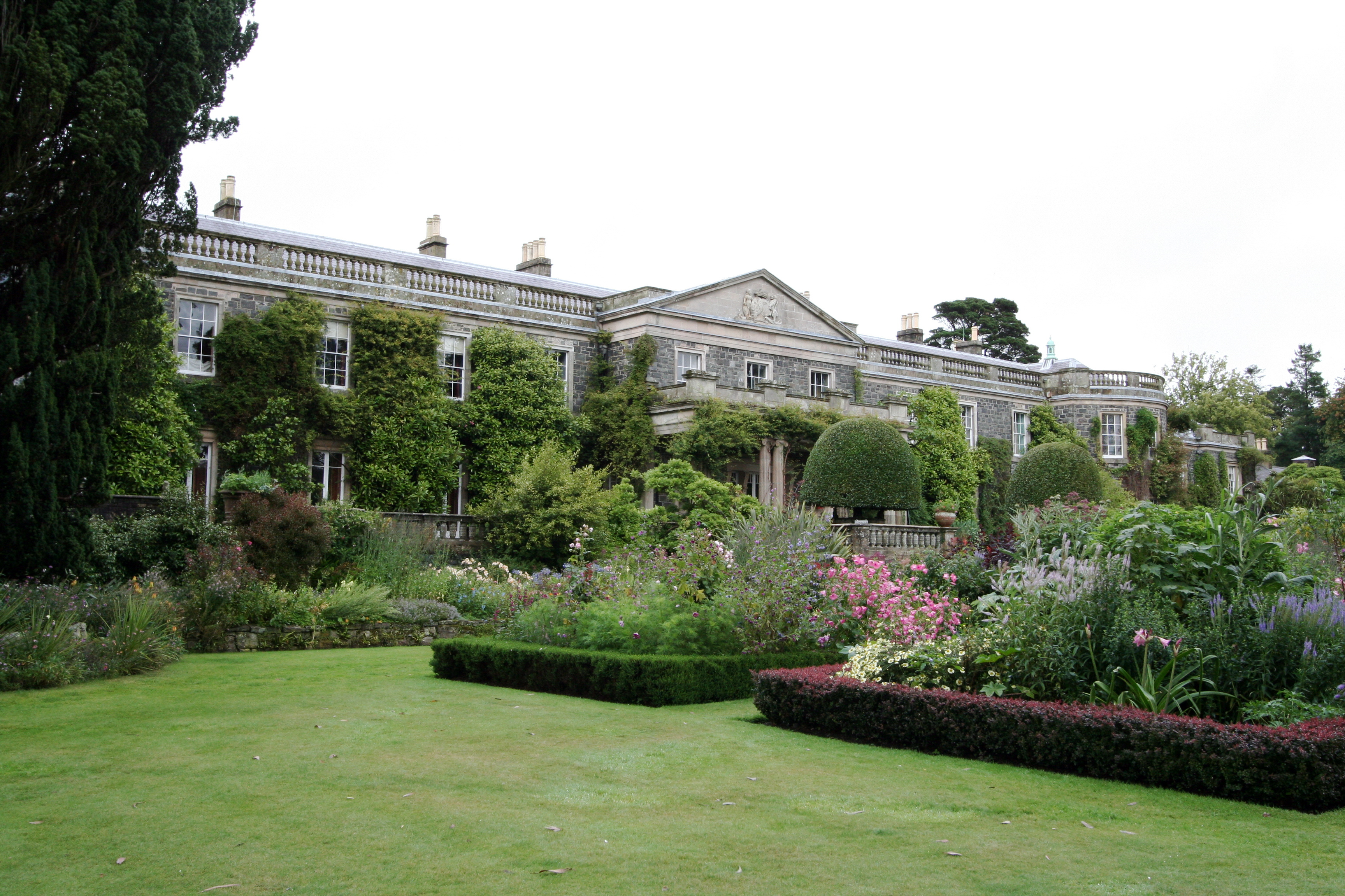 gardens and neoclassical facade of Mount Stewart, North Ireland, County DownMount Stewart